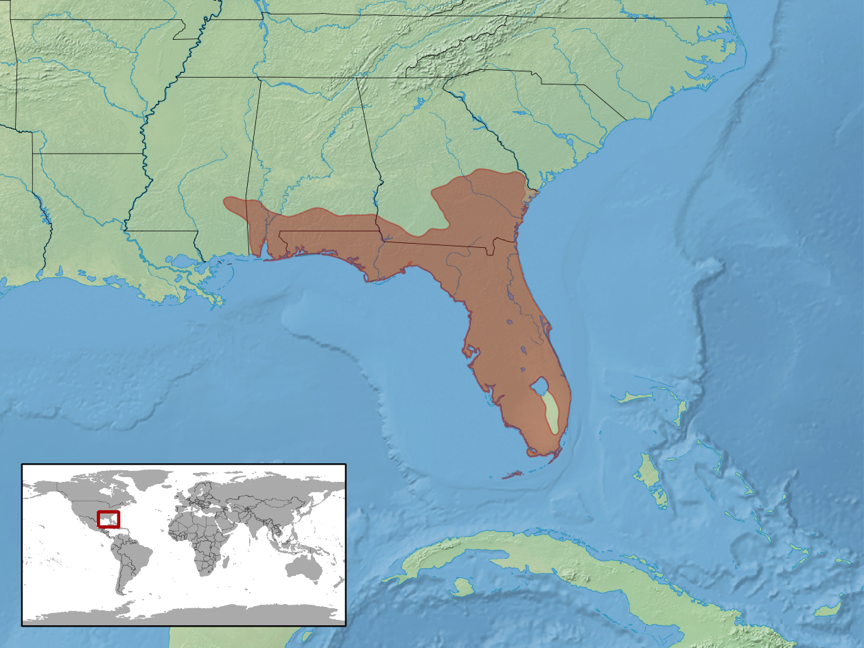 geographic distribution of Drymarchon couperi (Native: United States)